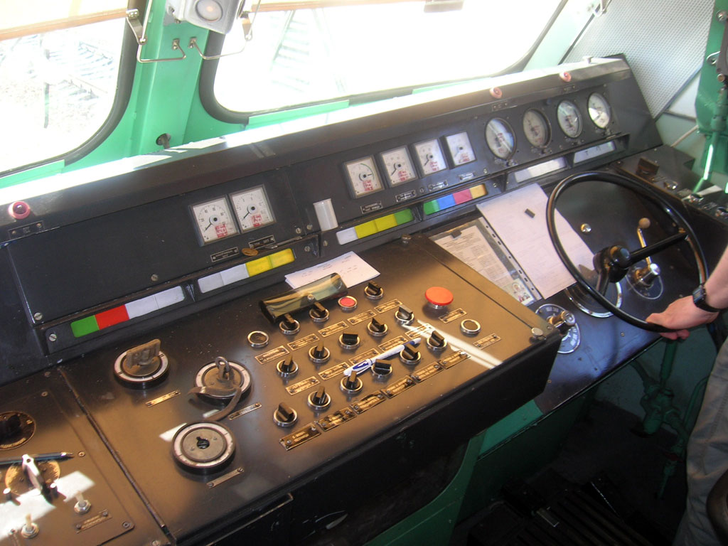 Cab of the modernised electric locomotive ChS2-426